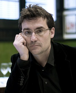 Julià Guillamon, Catalan writer.